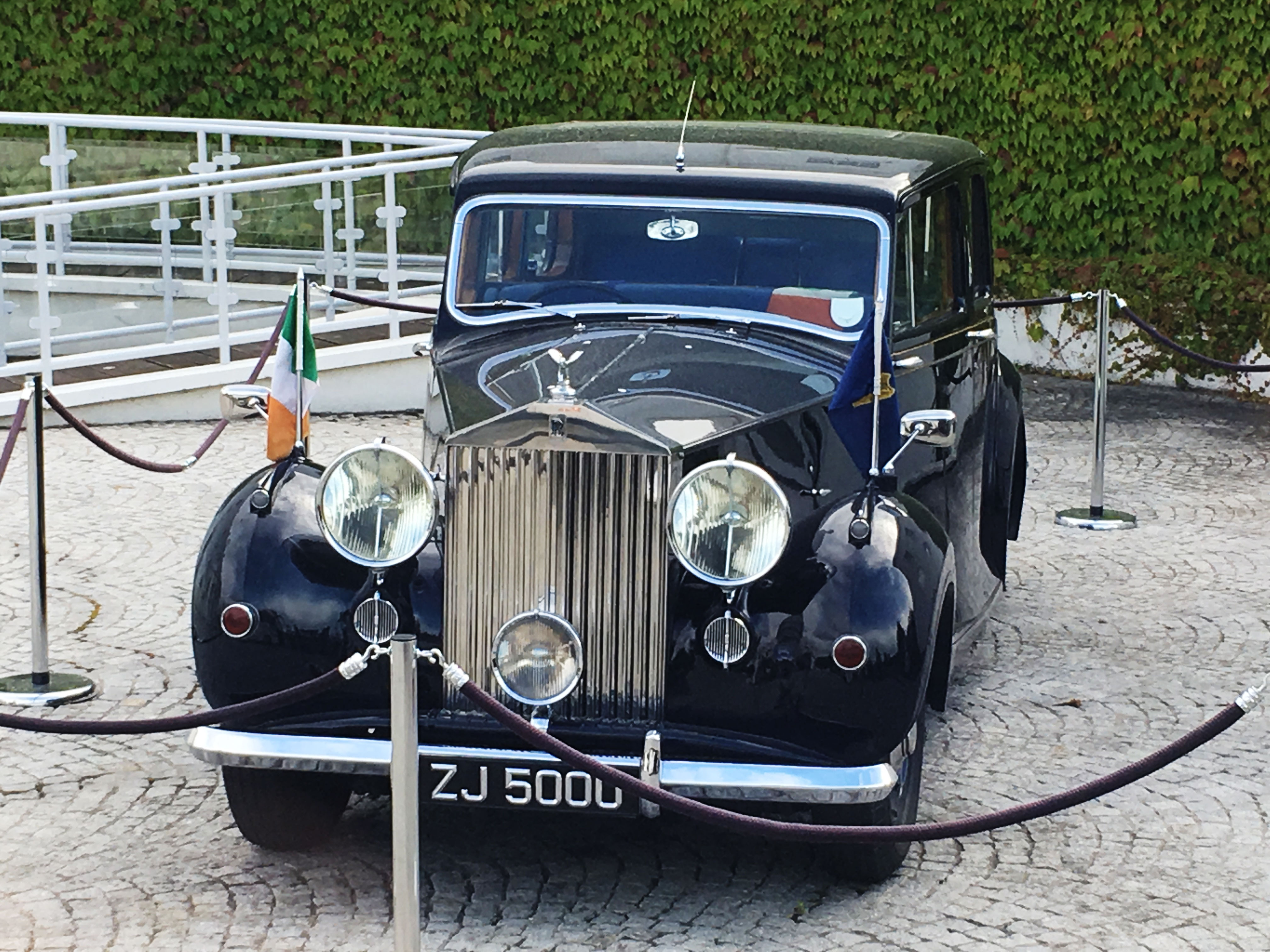 Picture taken outside Aras an Uachtarain of the Irish Presidential Car.